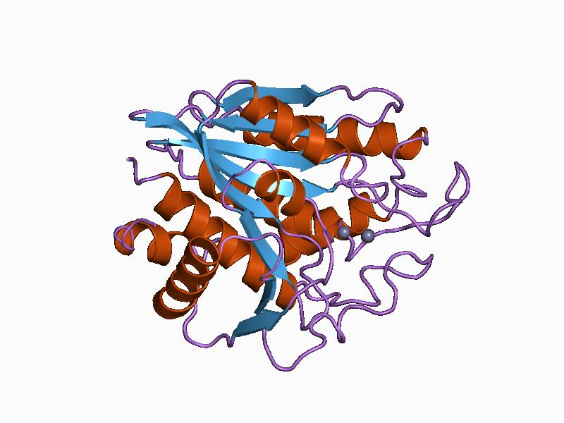 Cartoon representation of the molecular structure of protein registered with 1amp code.